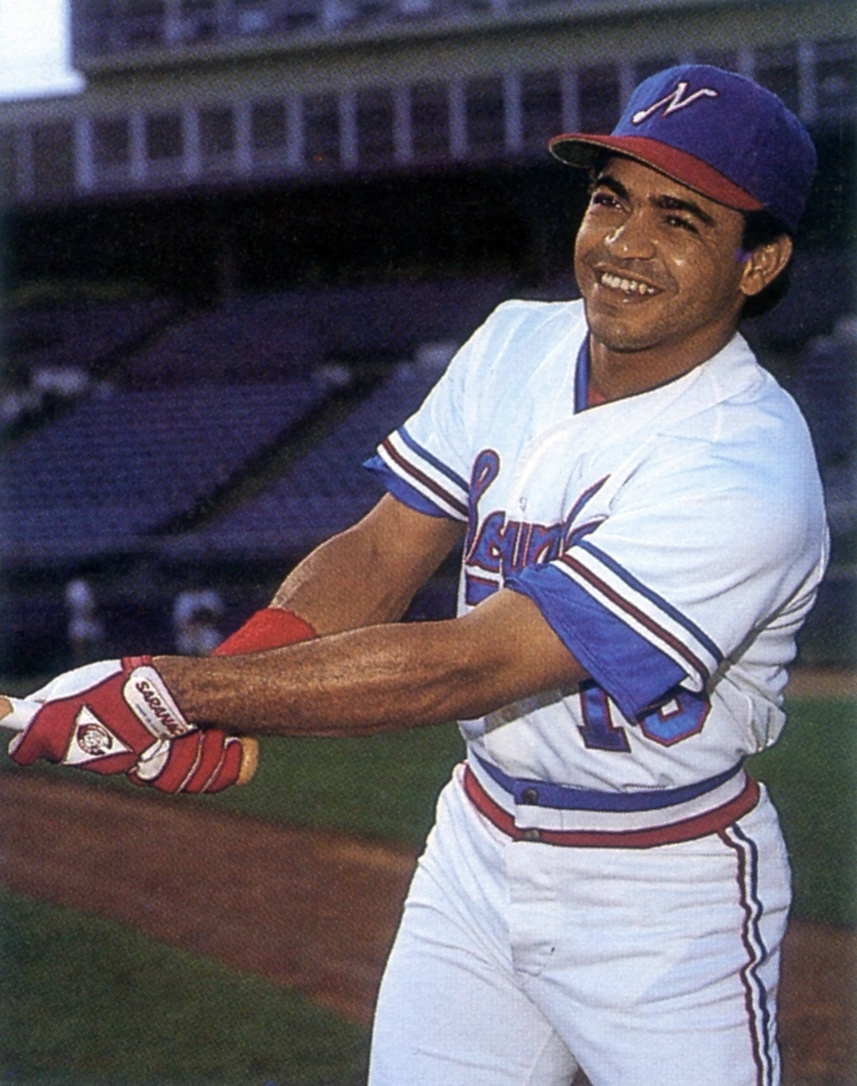 Outfielder Leo García of the 1987 Nashville Sounds Minor League Baseball team of the American Association